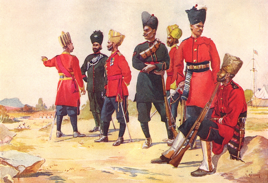 Depiction of various Rajputana Infantry regiments. From left: Subadar-Major of the 113th Infantry; Subadar-Major of the 104th Wellesley's Rifles; Subadar of the 119th Infantry (The Multan Regiment); Lance Naik of the 123rd Outram's Rifles; Subedar of the 112th Infantry; Member of the 109th Infantry; Member of the 122nd Rajputana Infantry